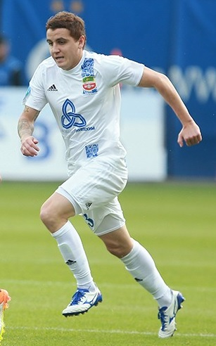 Nail Zamaliyev with FC Neftekhimik Nizhnekamsk in a game against FC Dynamo Moscow.